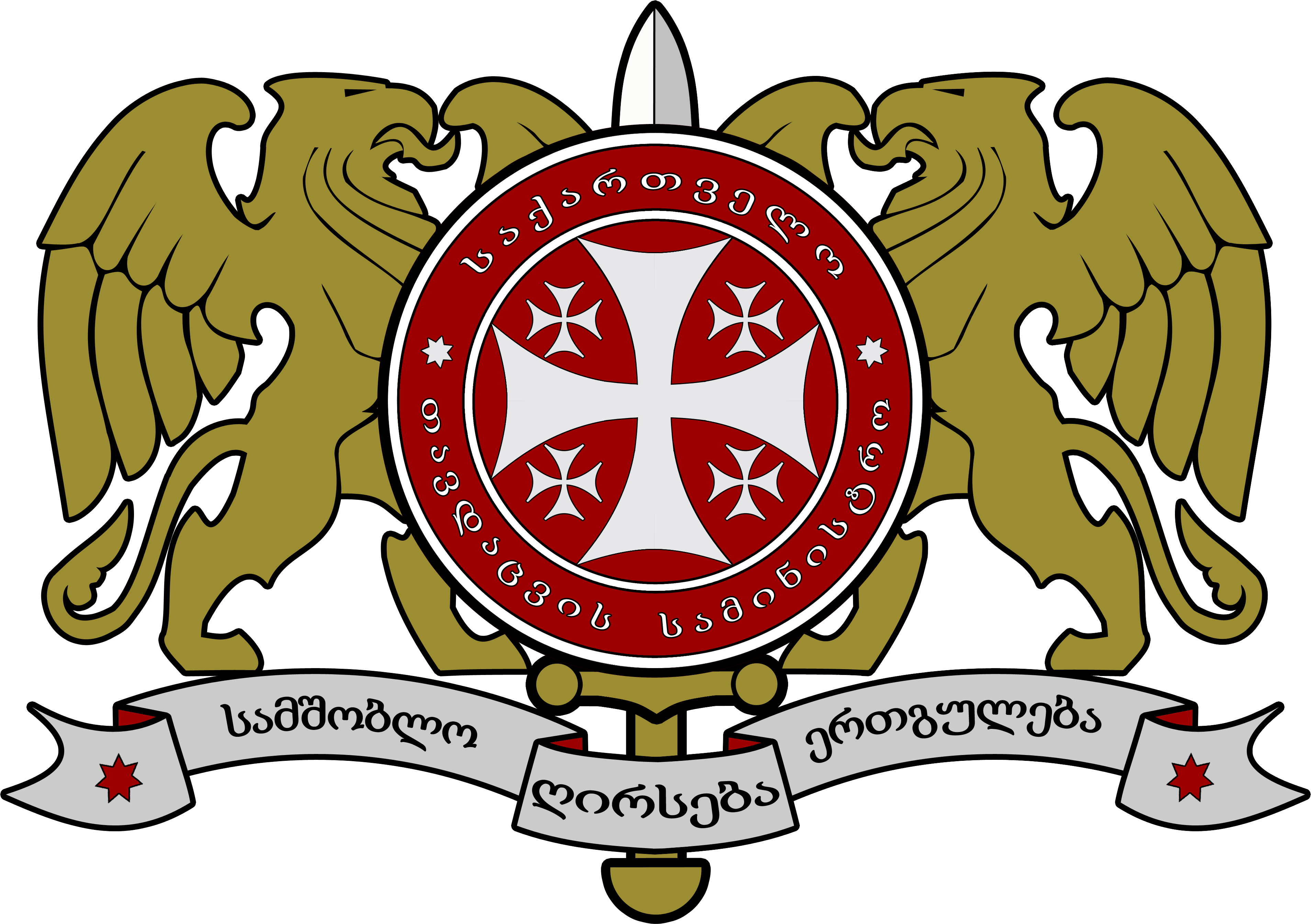 My version of the Defence Forces of Georgia MOD Emblem